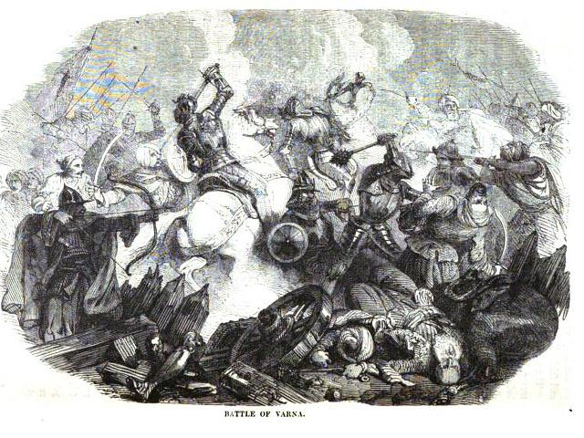 Battle of Varna (1444)